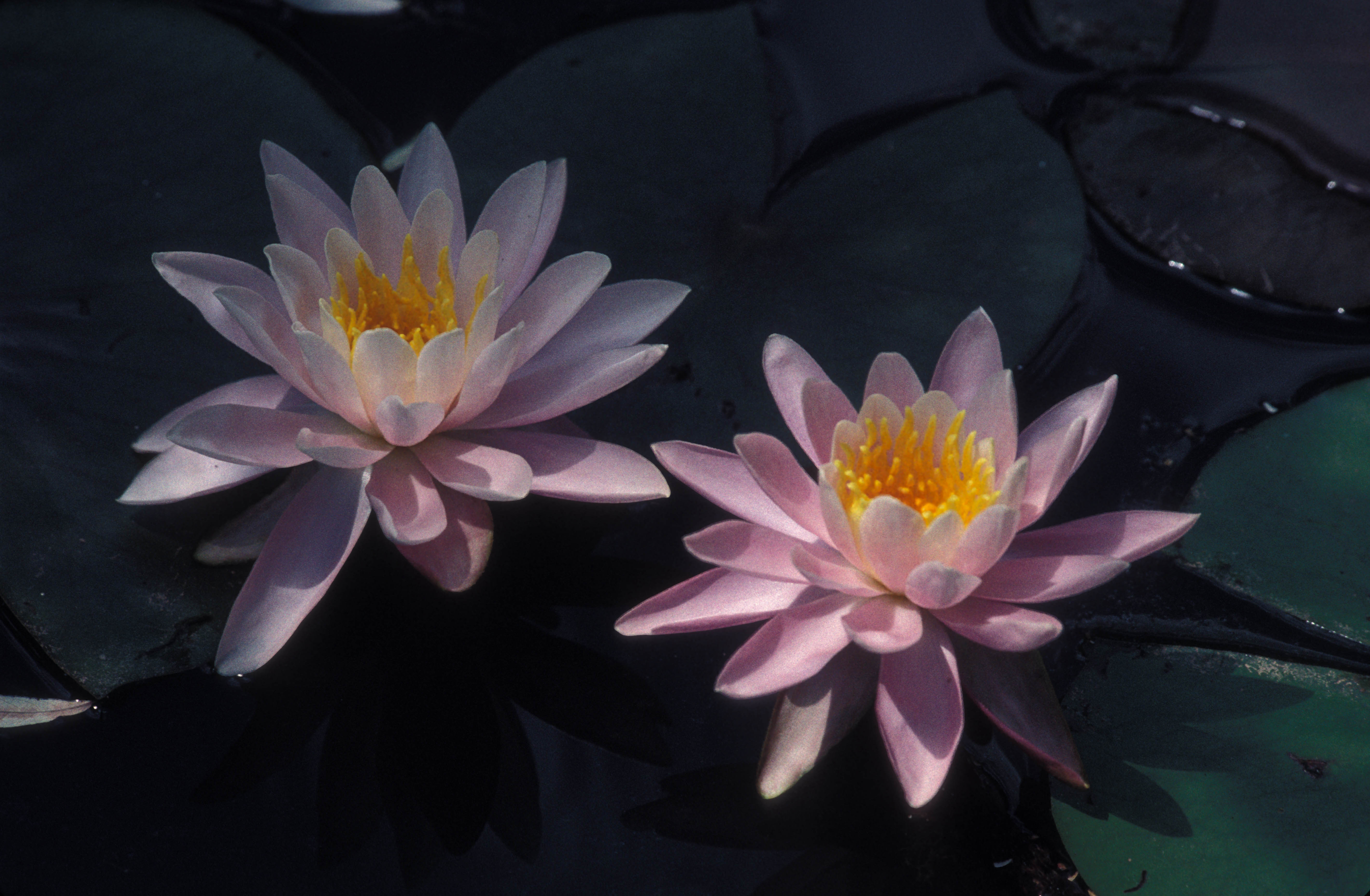 CLOSEUP PICTURE OF ONE OF THE NUMEROUS WATER LILLIES WHICH ARE THE SALIENT FEATURE OF THESE GARDENS. ALL DIFFEFRENT COLORS AND TYPES EXIST